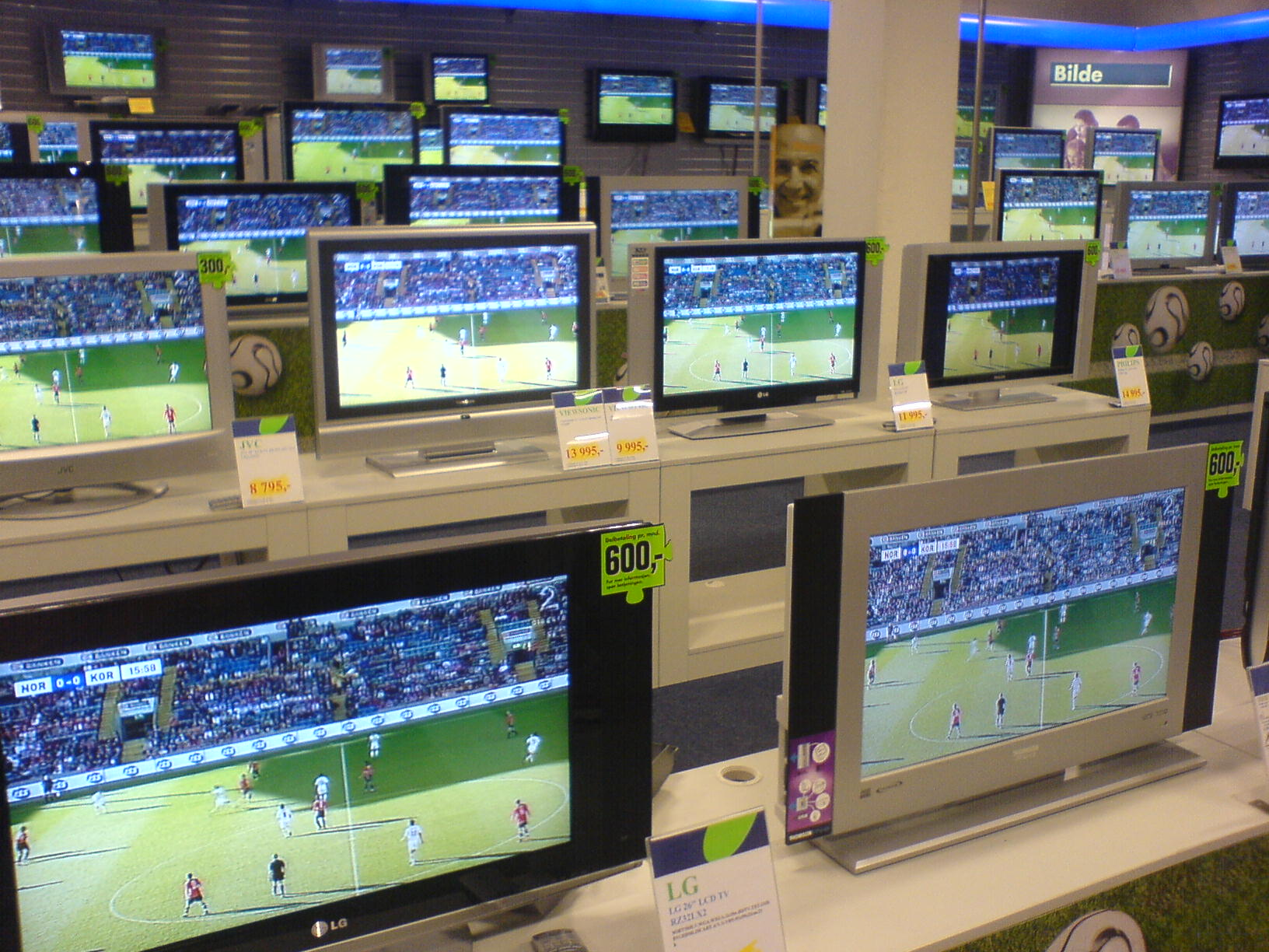 Flat screens for sale at Elkjøp in Norway